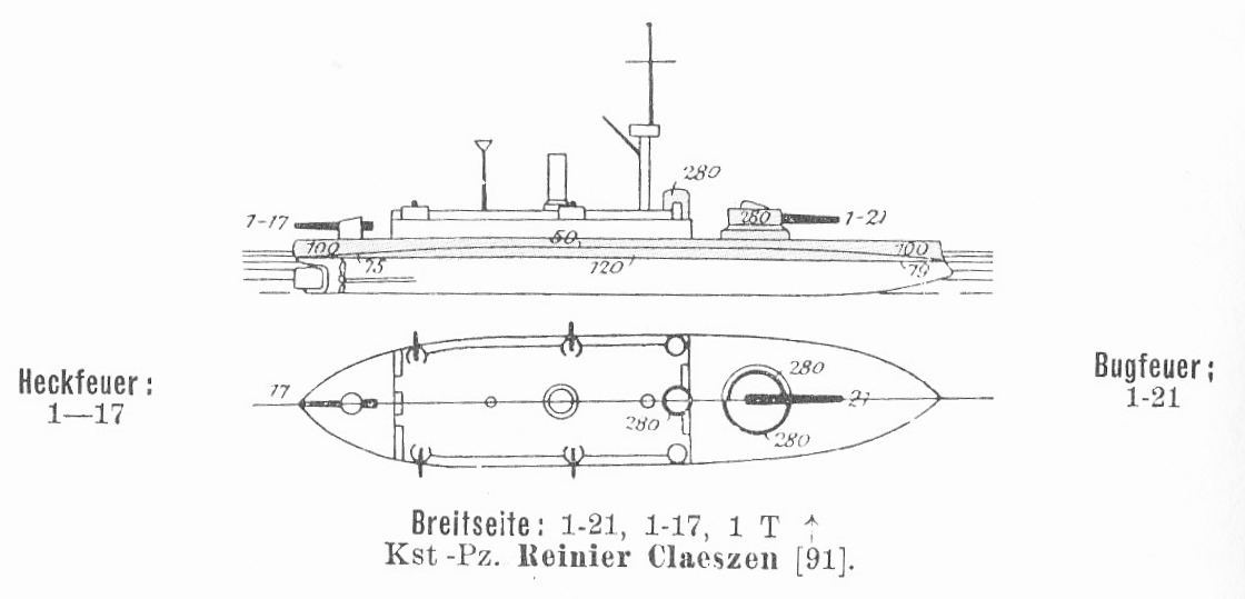 Plan of the Dutch coastal defence ship Reinier Claeszen.